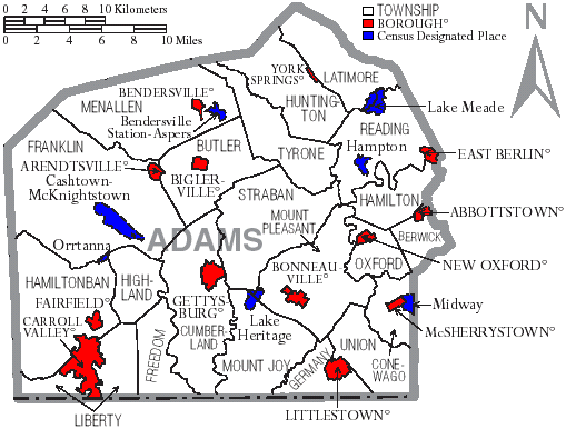 Map of Adams County, Pennsylvania, United States with township and municipal boundaries is taken from US Census website [1] and modified by User:Ruhrfisch in April 2006. My modifications licensed under the GNU Free Documentation License. Source: US Census website [2]